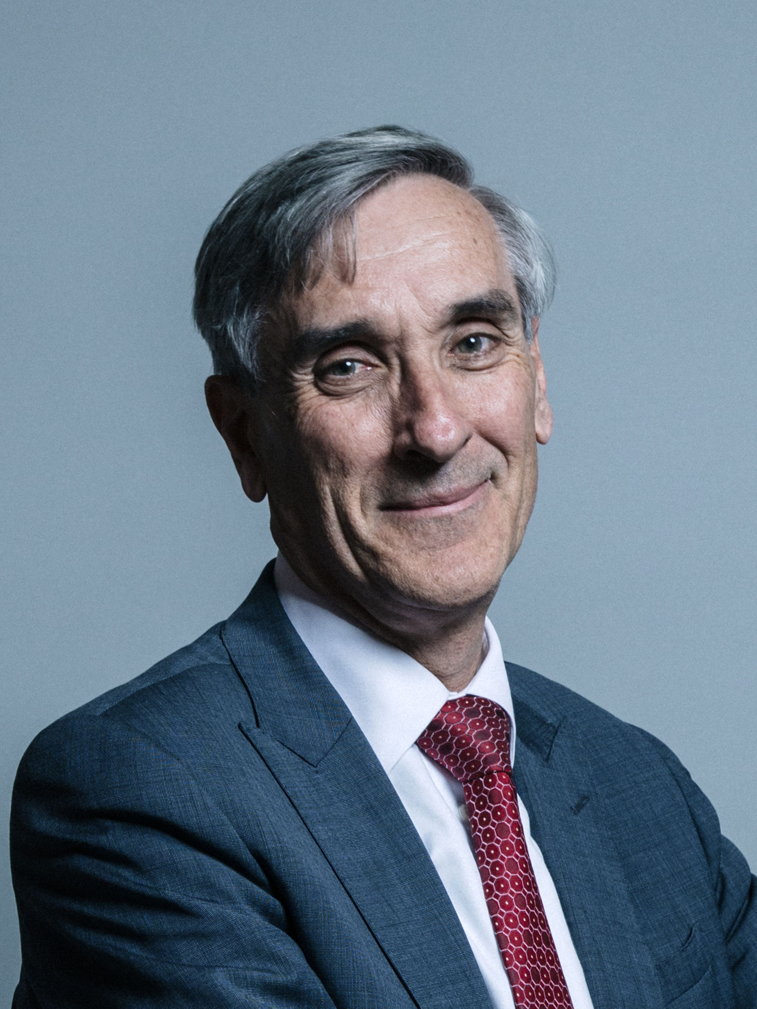 Official portrait of John Redwood